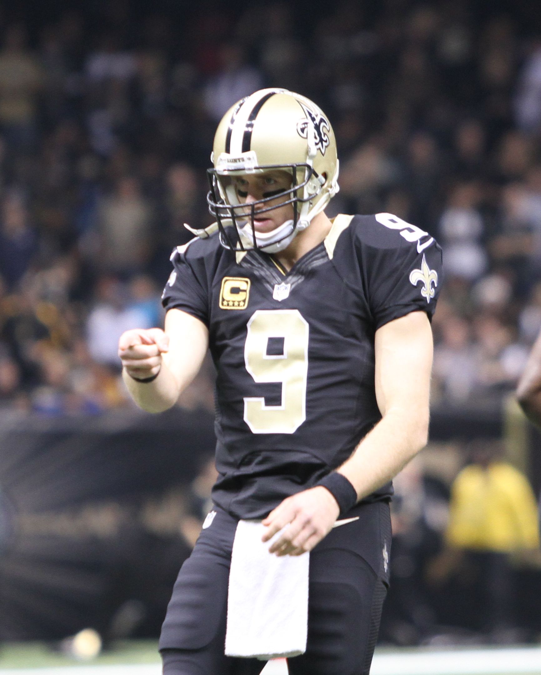 Drew Brees, New Orleans Saints vs Carolina Panthers, December 6, 2015, NFL Football, Tammy Anthony Baker, Photographer